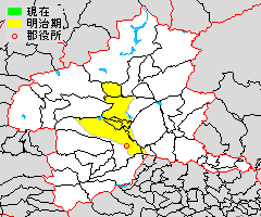 Map showing extent of former Nishigunma District, Gunma, Japan